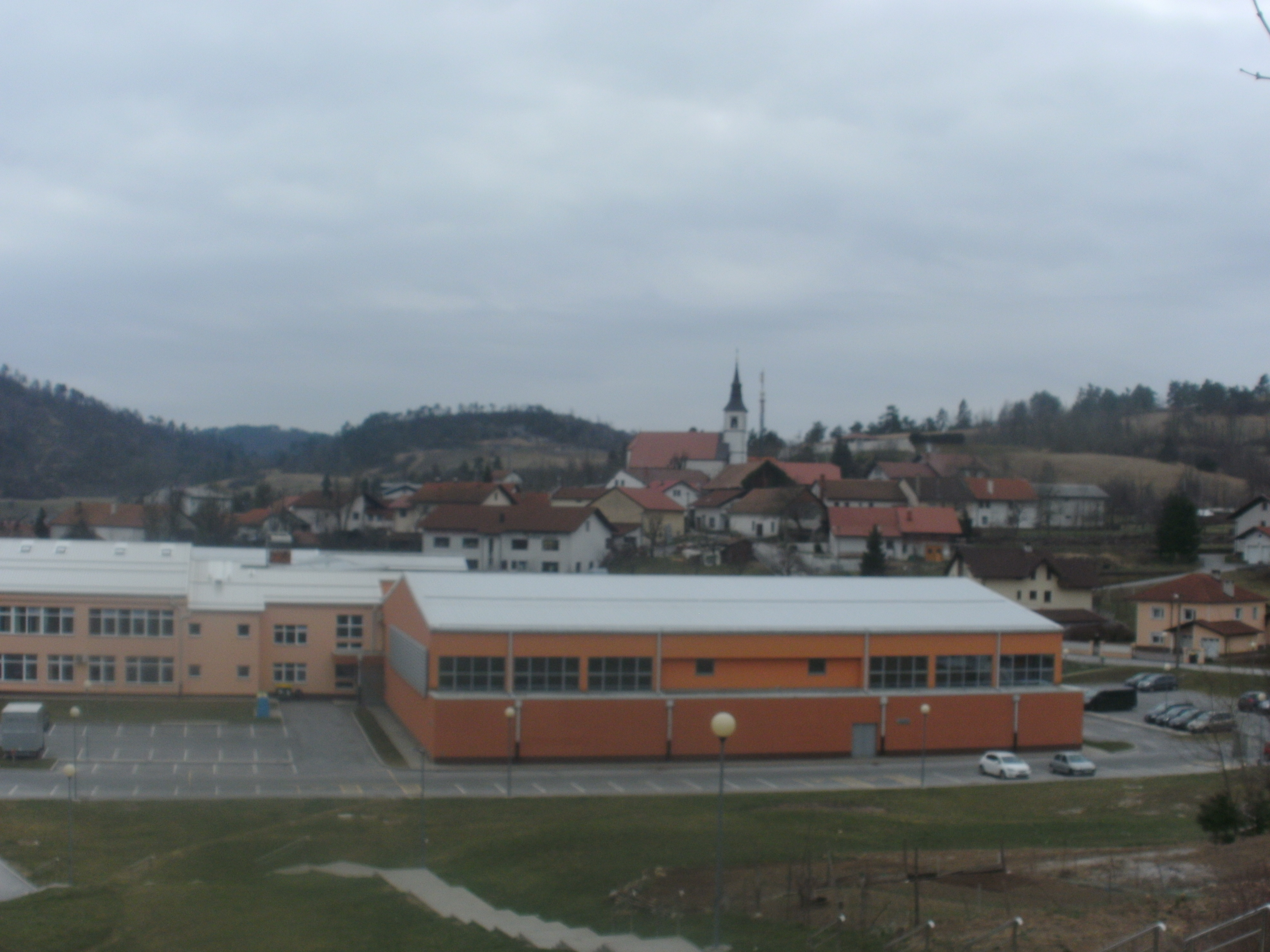 Pivka wiew